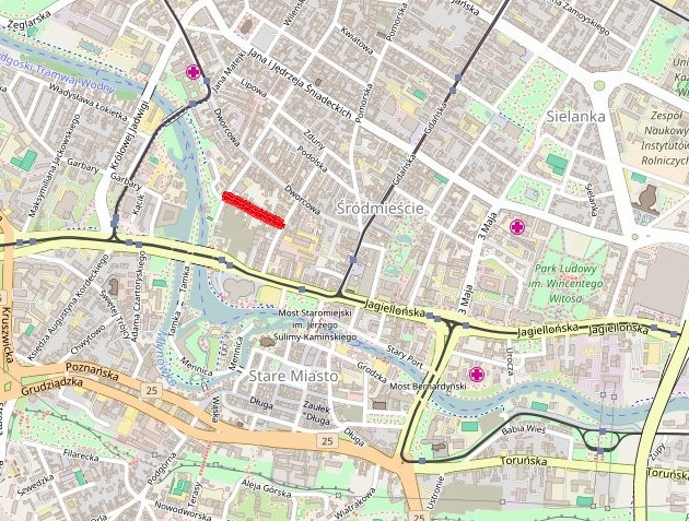 Obroncow Street on Bydgoszcz map